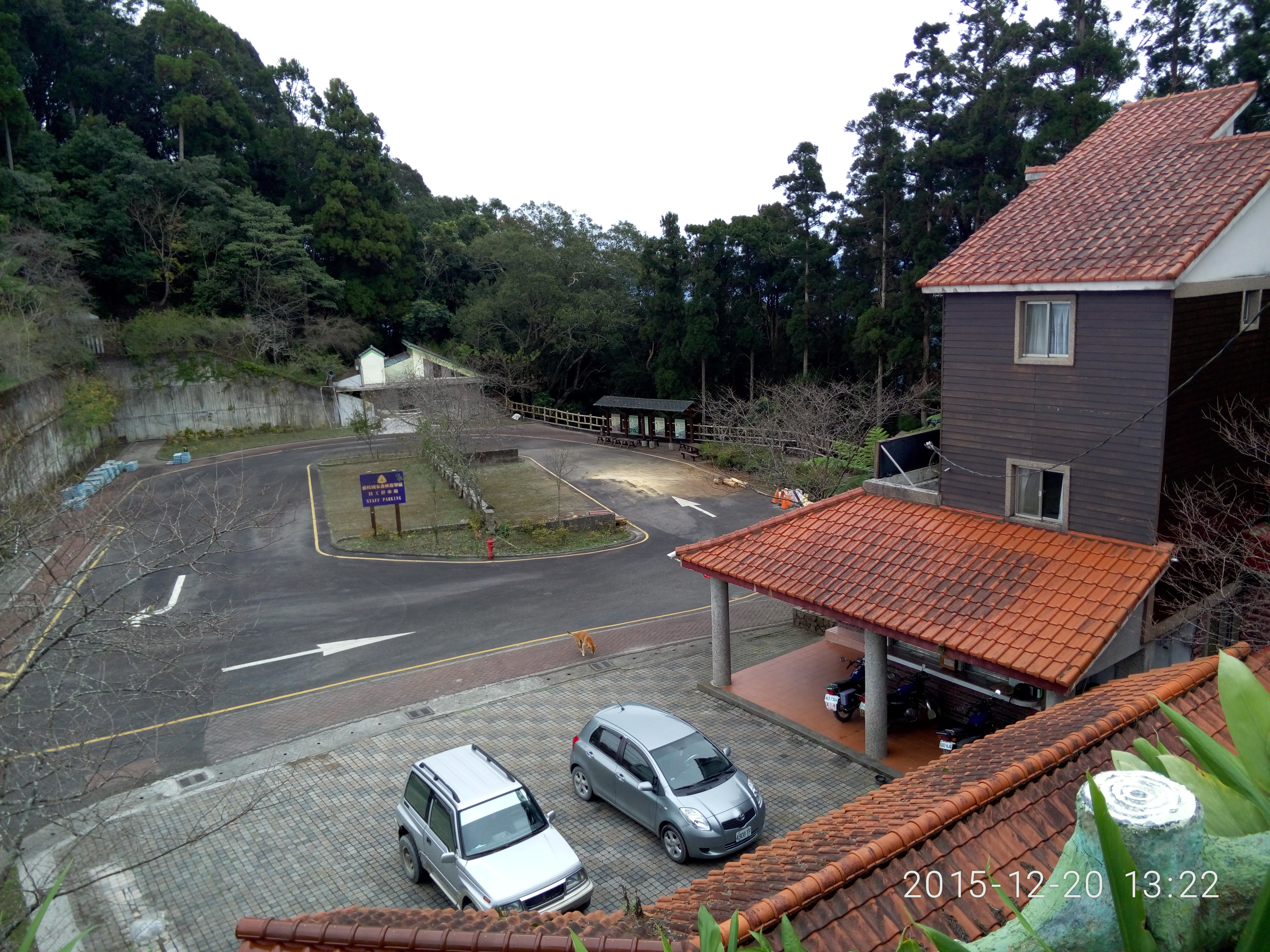 Tengjhih National Forest Recreation Area parking area